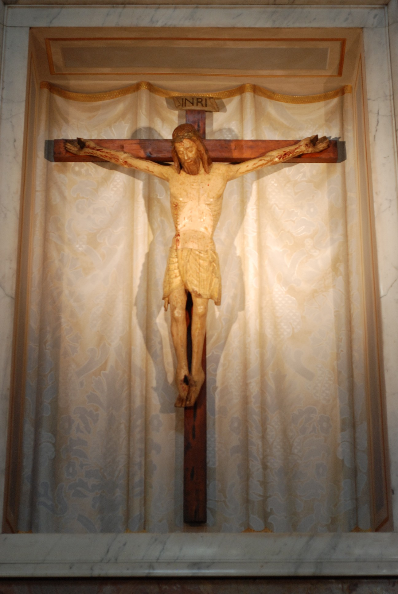 "Velo Damascato", Trompe l'Oeil painted by Daniela Benedini in 2009. The painting represents a damasked veil as a background of a XIV century wooden crucifix (unknown author) - Basilica Romana Minore, Collegiata, Prepositurale Plebana dei S.S. Siro e Materno, Desio (Italy)